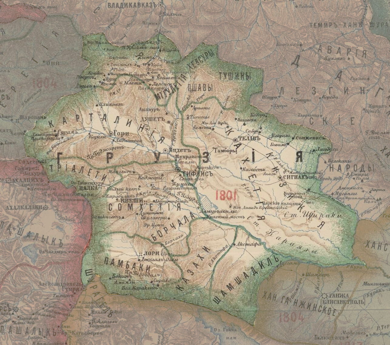 Kingdom of Kartli-Kakheti in the Map of Caucasus with the borders 1801-1813.png